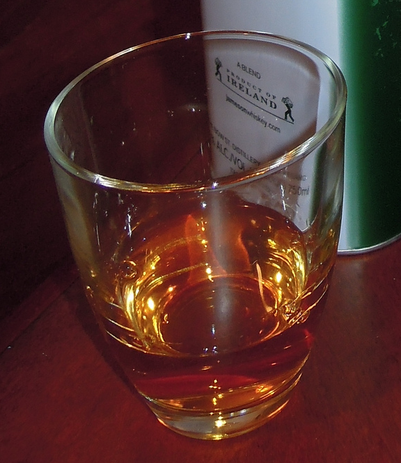 Jameson Irish Whiskey